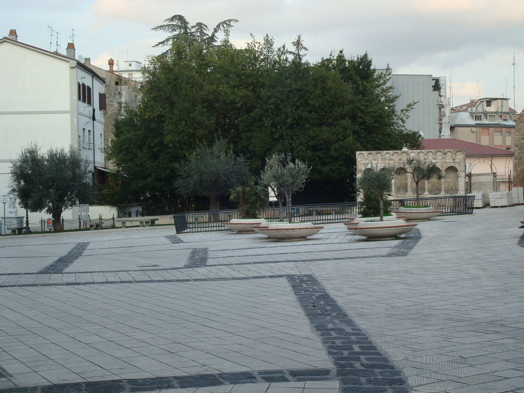 Piazza Celestino V Isernia